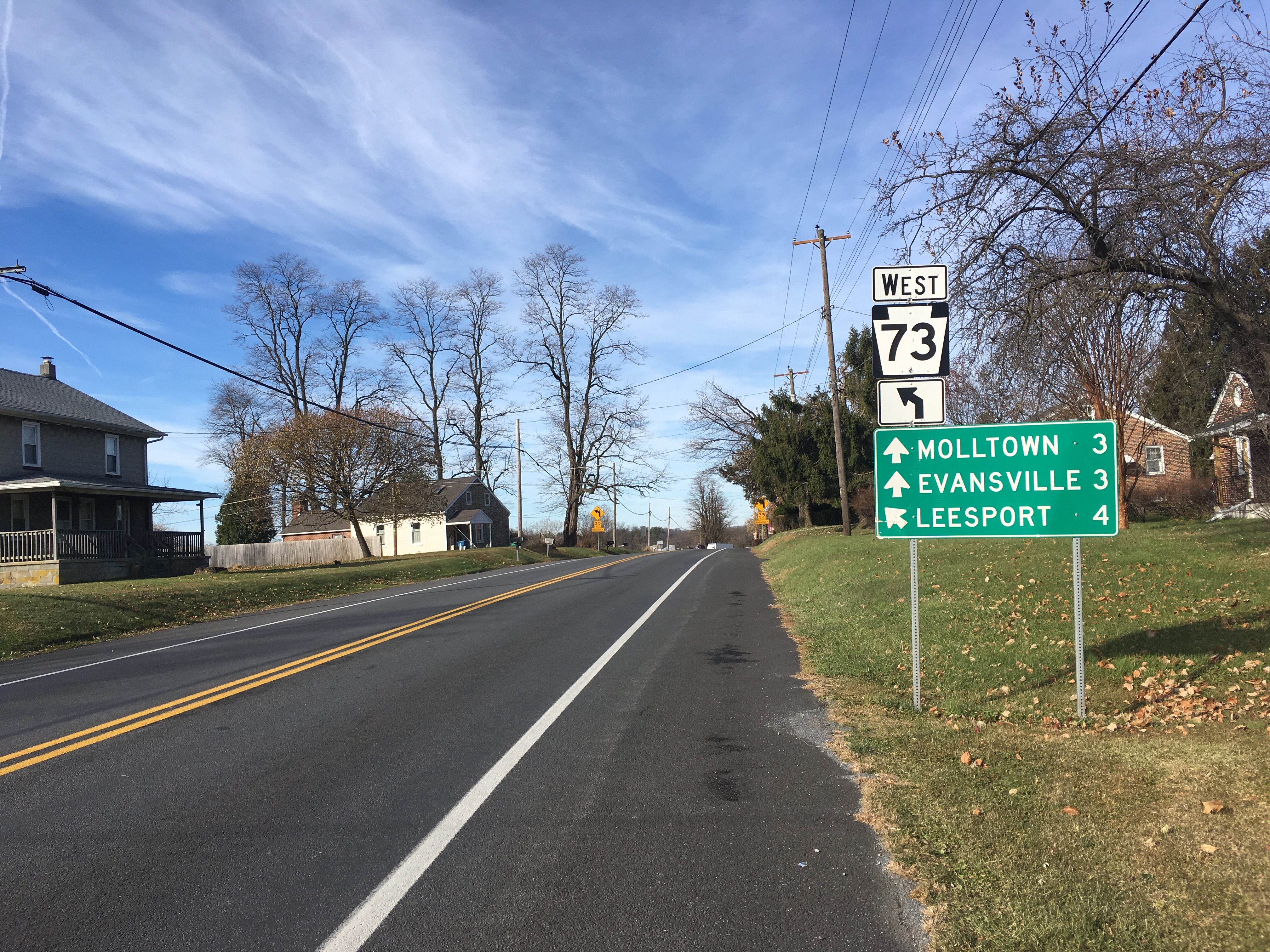 Westbound Pennsylvania Route 73 (Lake Shore Drive) approaching the intersection with Maidencreek Road in Maidencreek Township, Pennsylvania